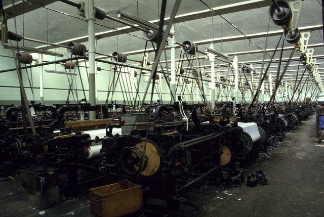 Weaving shed, Queen Street Mill A typical shed. There would be 800-1200 Lancashire looms in a typical shed, each taking about 0.5 horsepower of steam engine power and producing an incredible din. The mill girls communicated by lip reading a skill called mee-mawing (somebody will correct the spelling).